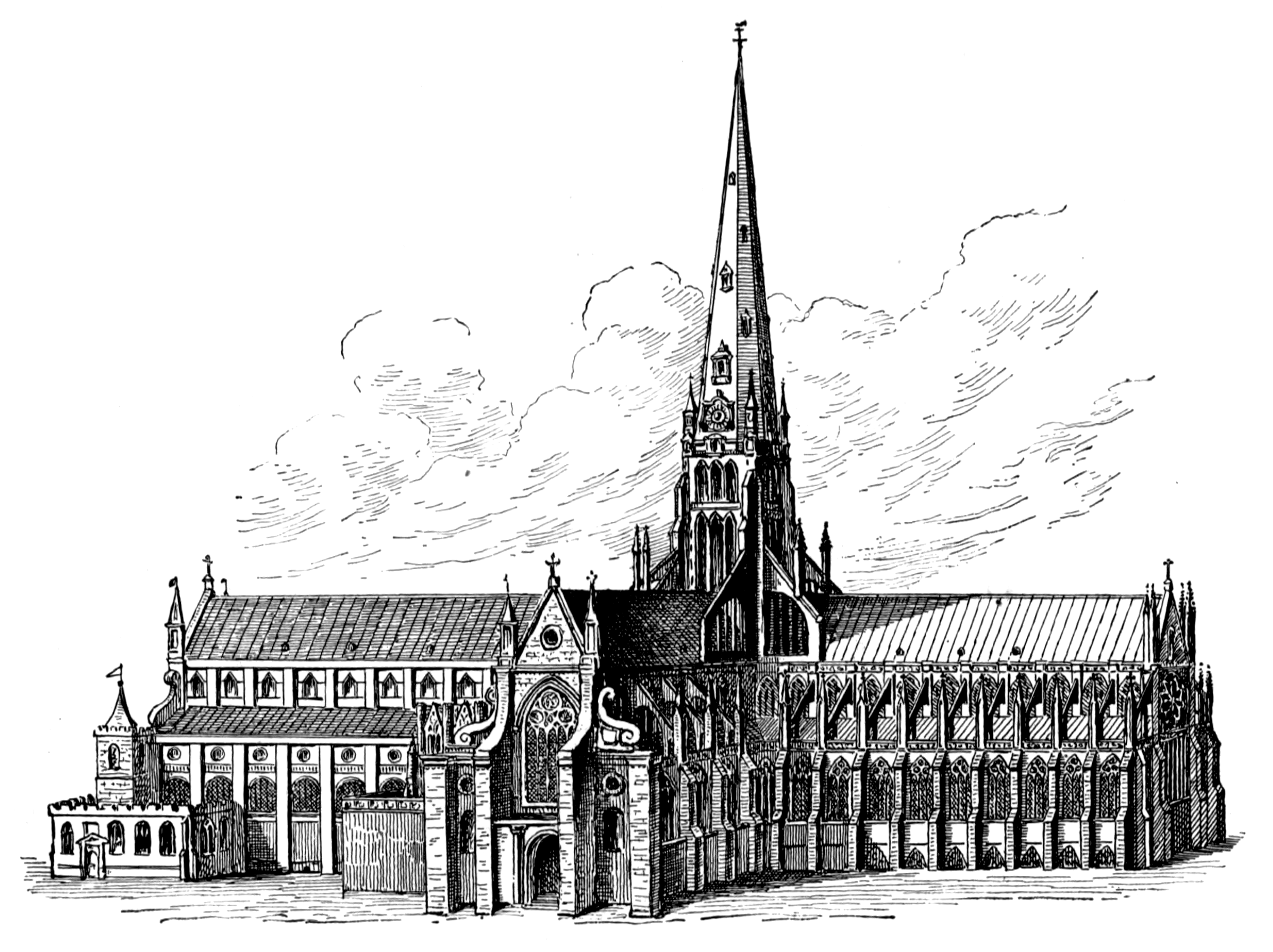 OLD ST. PAUL'S—EXTERIOR. FROM DUGDALE'S "HISTORY OF ST. PAUL'S CATHEDRAL."